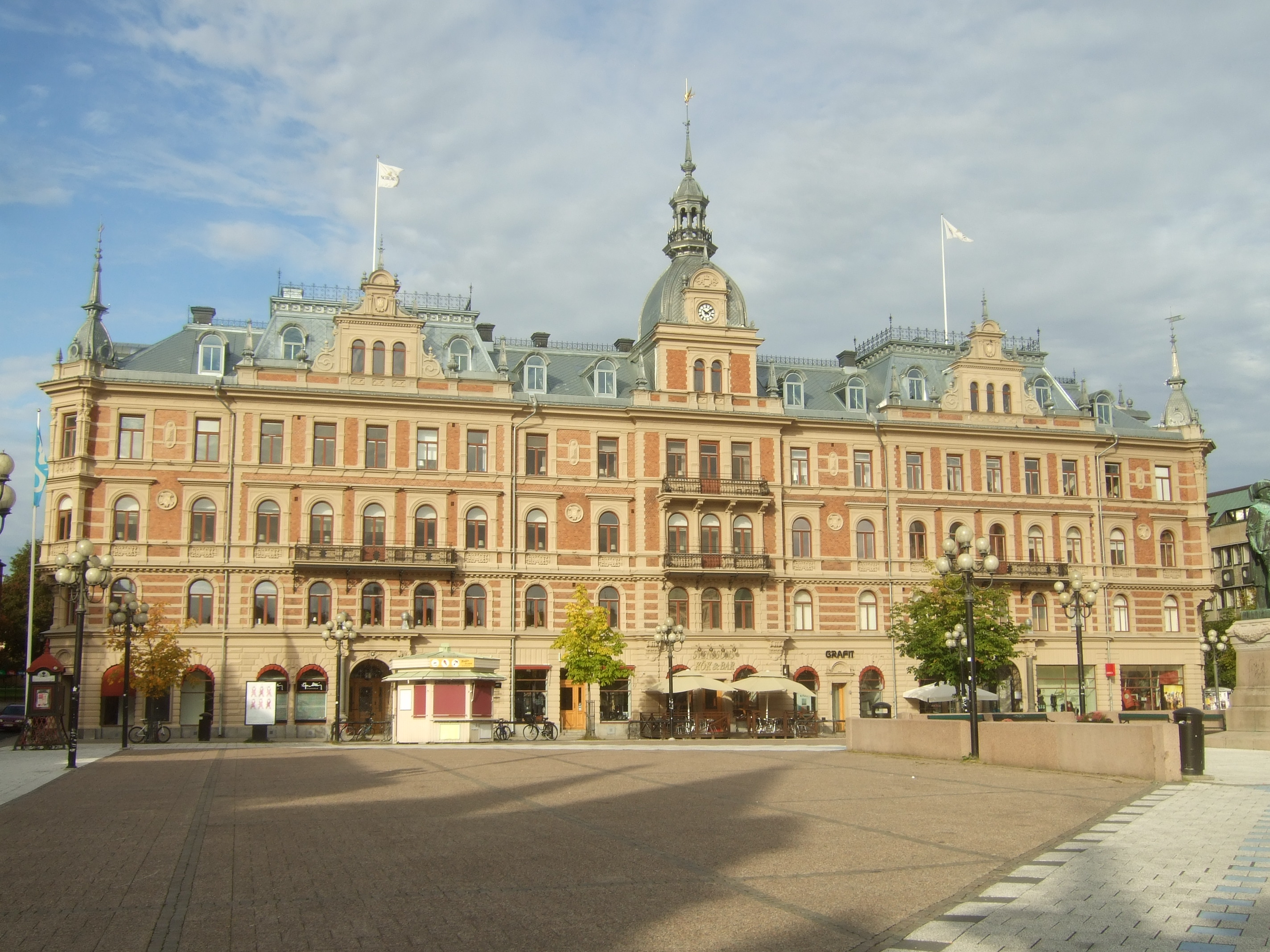 The house of "Hirschska huset" at Torggatan 6-8 in Sundsvall, viewed from southeast